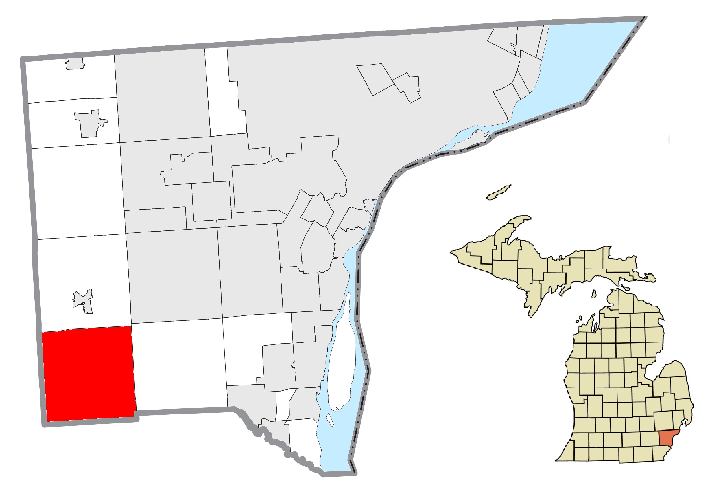 Sumpter Township, MI